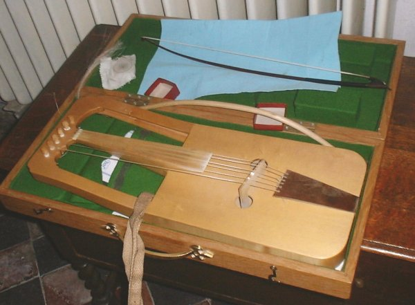 A crwth in its case. A modern instrument belonging to Cass Meurig, a copy made by Guy Flockhart of an 18th-century instrument in the National Library of Wales. Photo by Harry Campbell of taken at the 2003 National Eisteddfod.